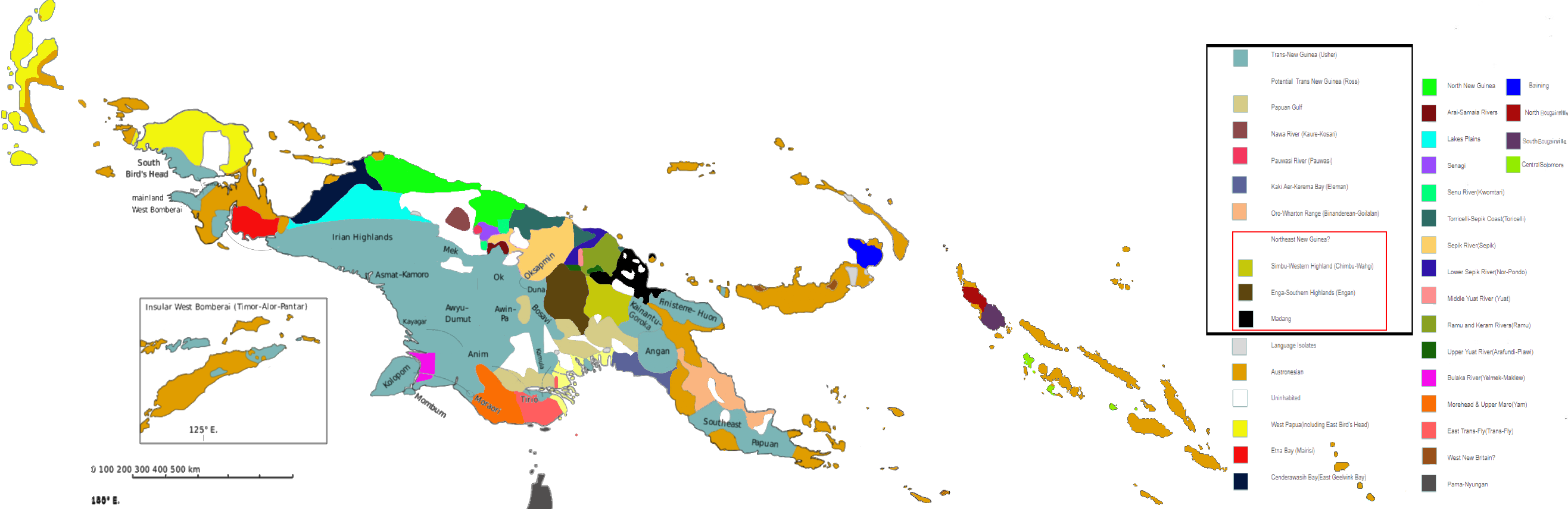 Linguistic map of New Guinea and surrounding islands, including the North Moluccas, Solomon Islands, the Torres Strait Islands and Northern Australia. Classification of the Languages East of New Guinea proper was not taken into consideration by Usher. The Yele Dinye language isolate of Rossel Island is either West New Britain or Austronesian, and is shown as striped with both colours.